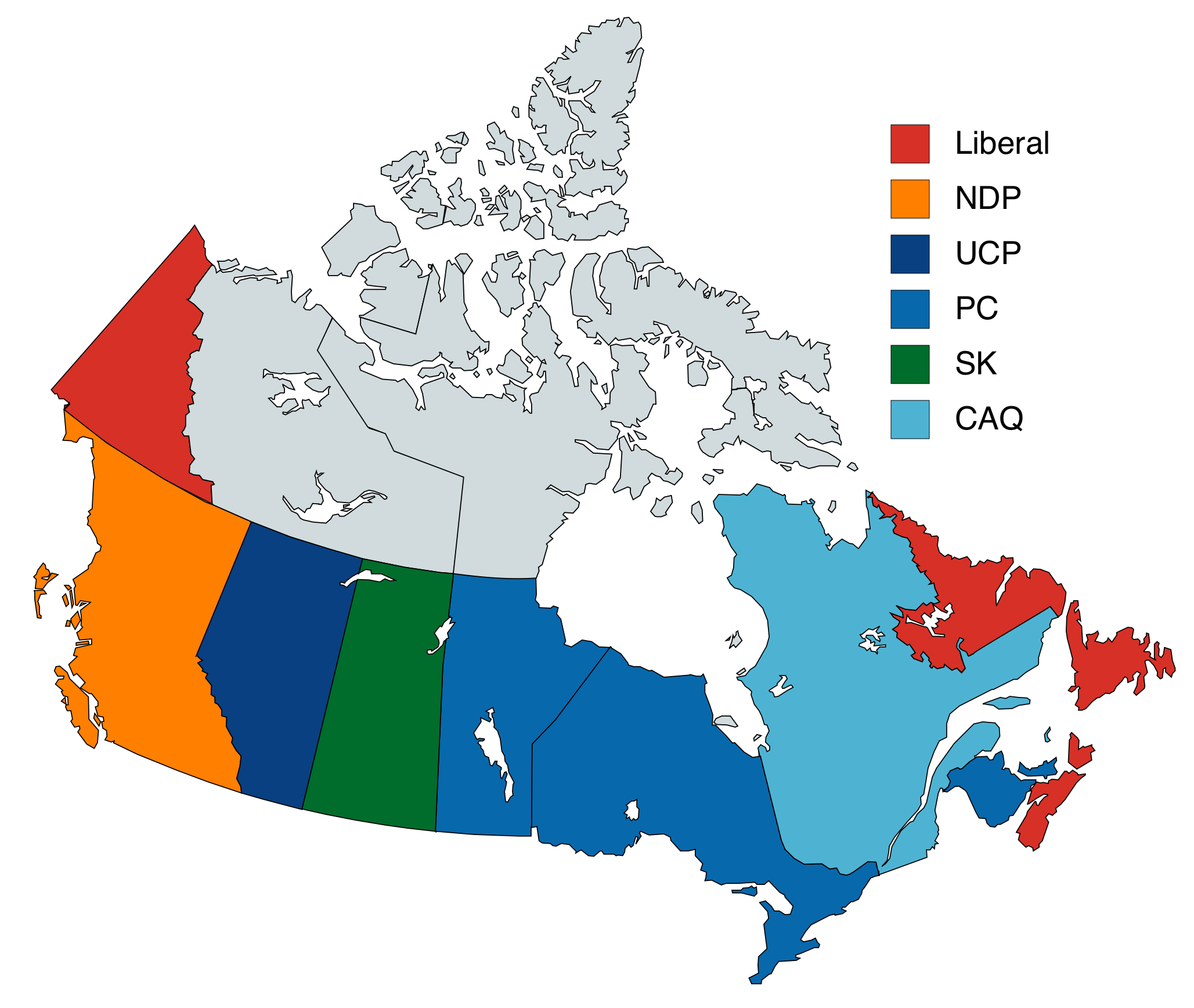 The governing political party(s) in each Canadian province. Multicolored provinces are governed by a coalition or minority government consisting of more than one party.